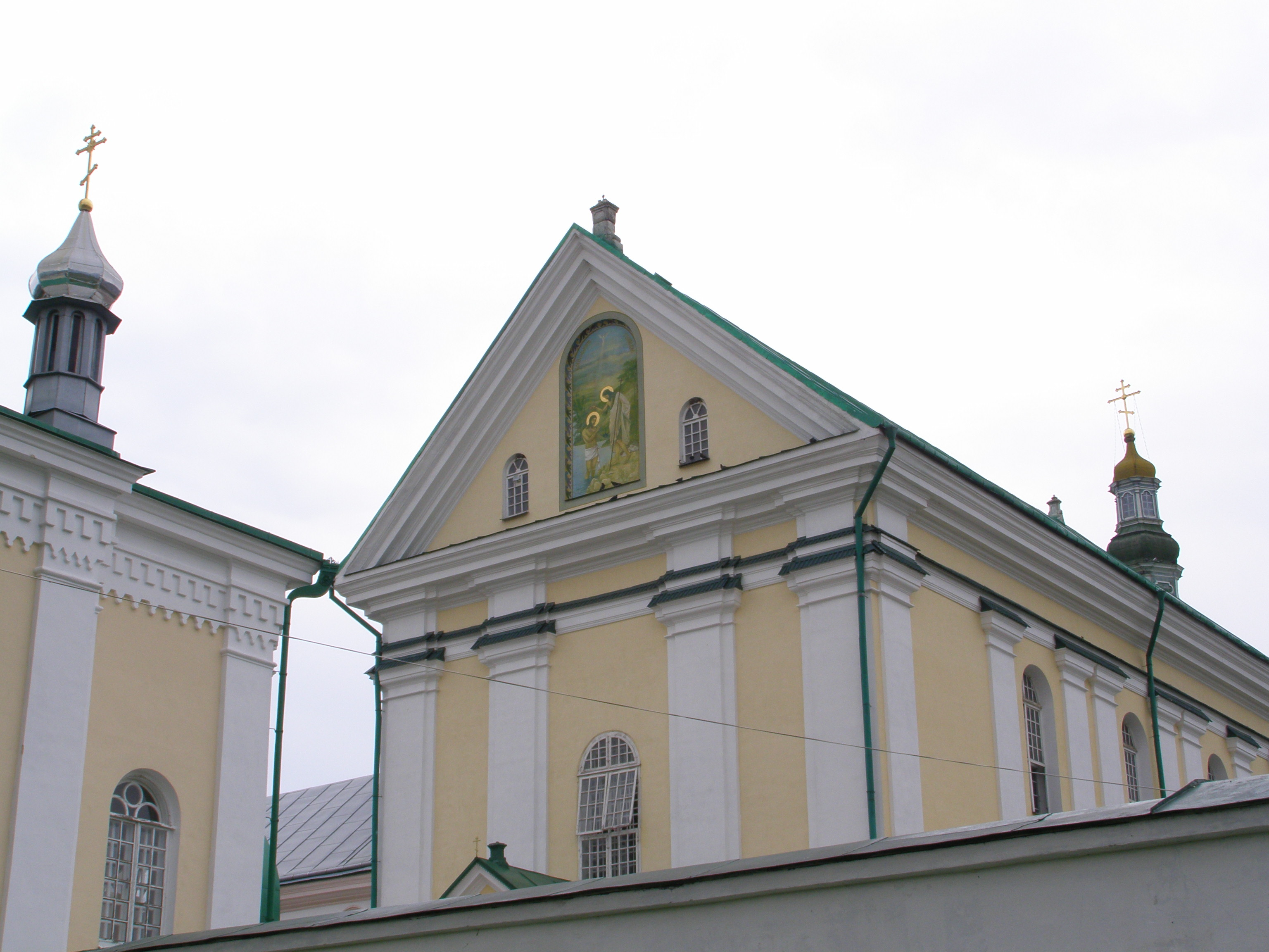 Kremenets, Monastery of Ukrainian Orthodox Church